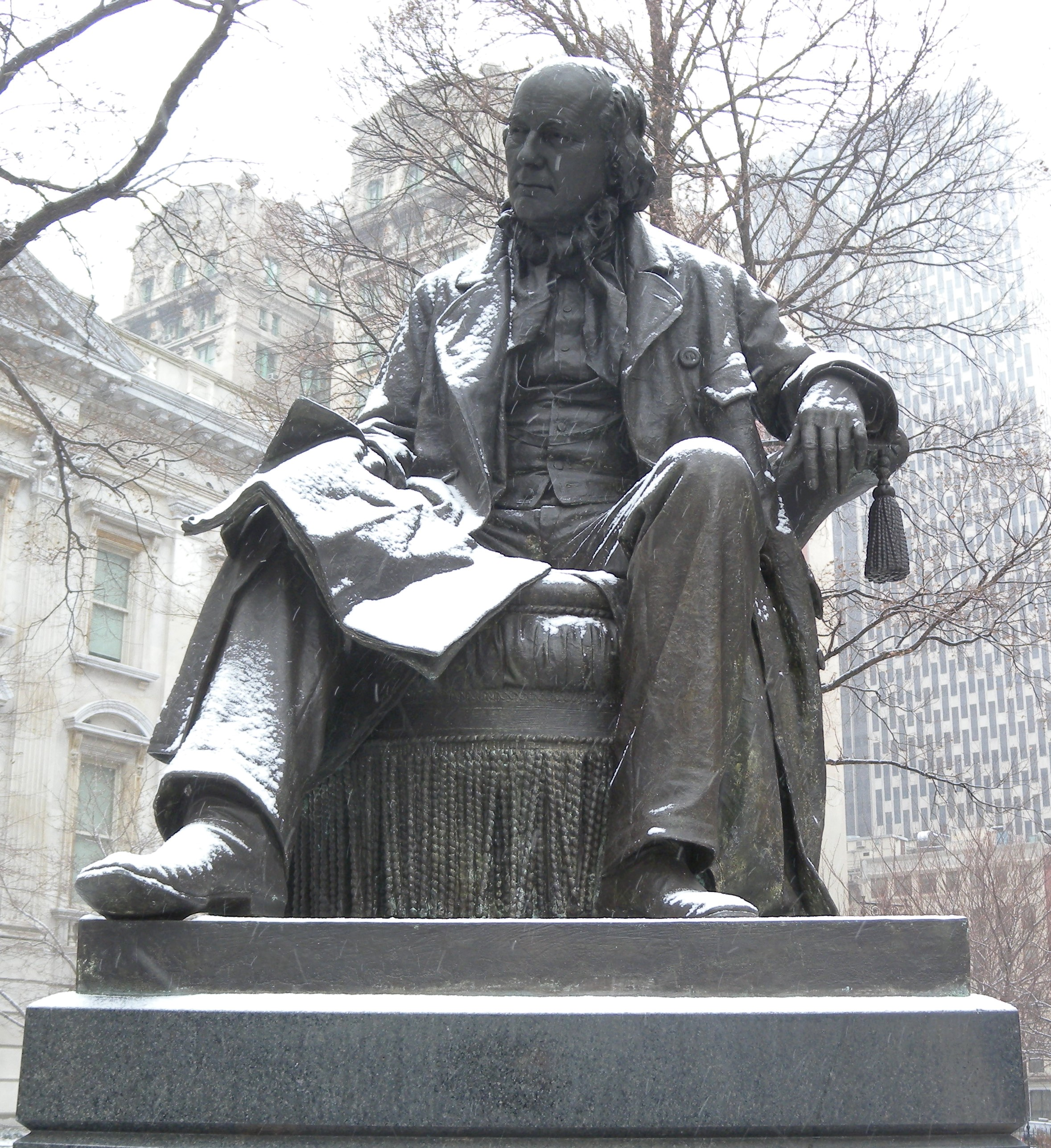 Statue of journalist/politician Horace Greeley at City Hall Park, New York. Looking northwest as a blizzard begins.